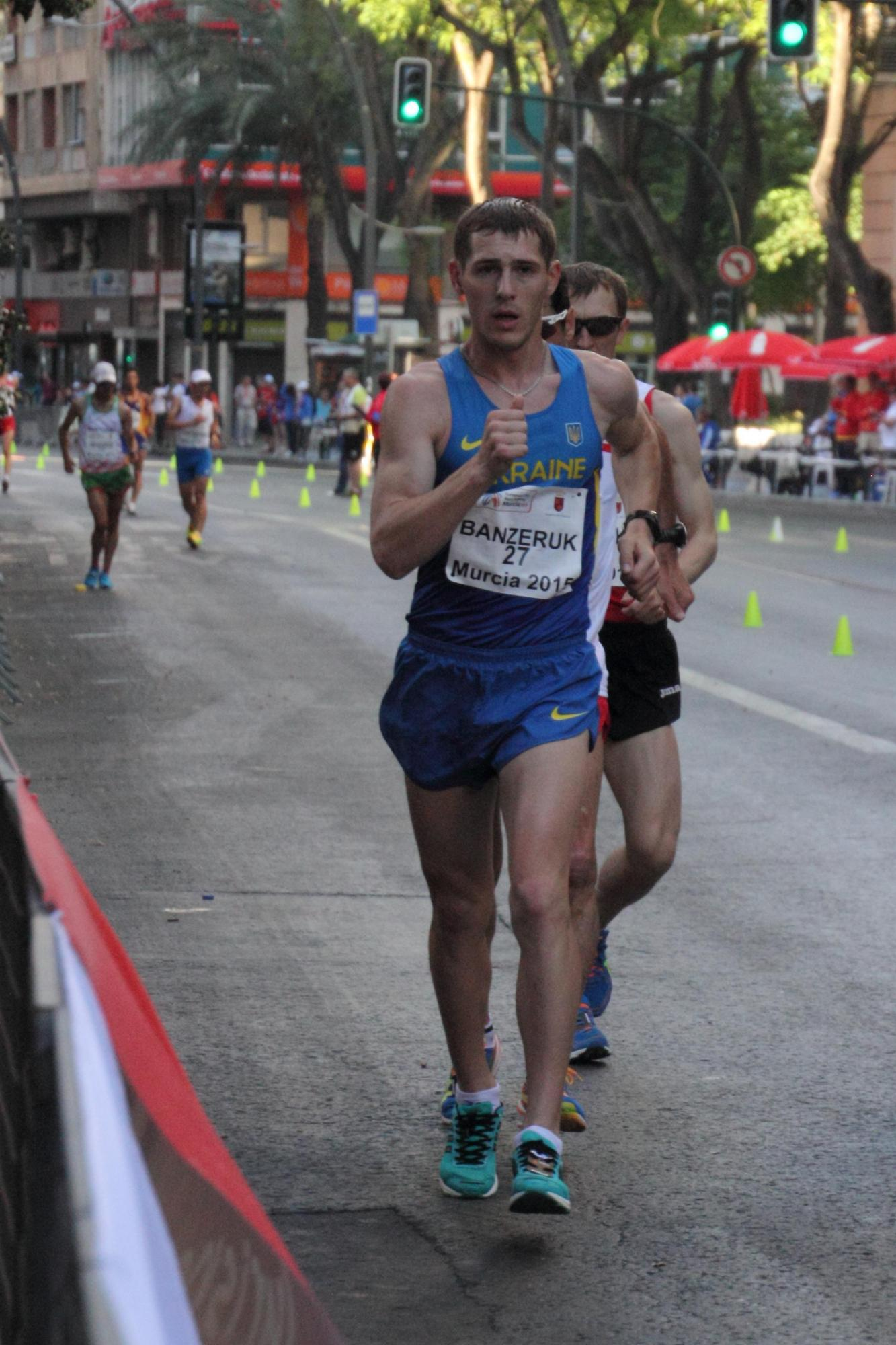 27-Ivan Banzeruk (UKR) in the European Cup Race Walking 2015 (Murcia, Spain).